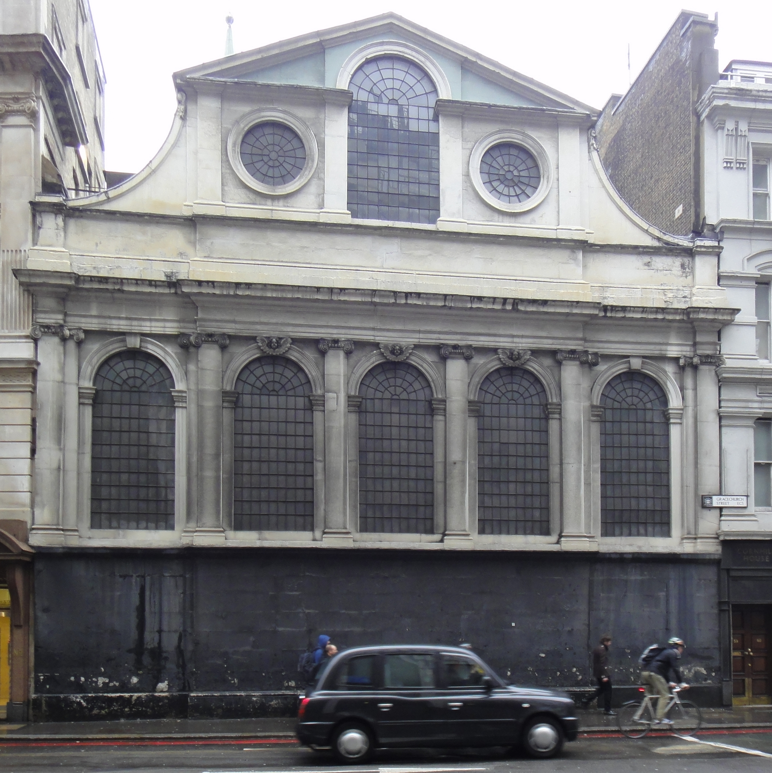 Rainy London in March